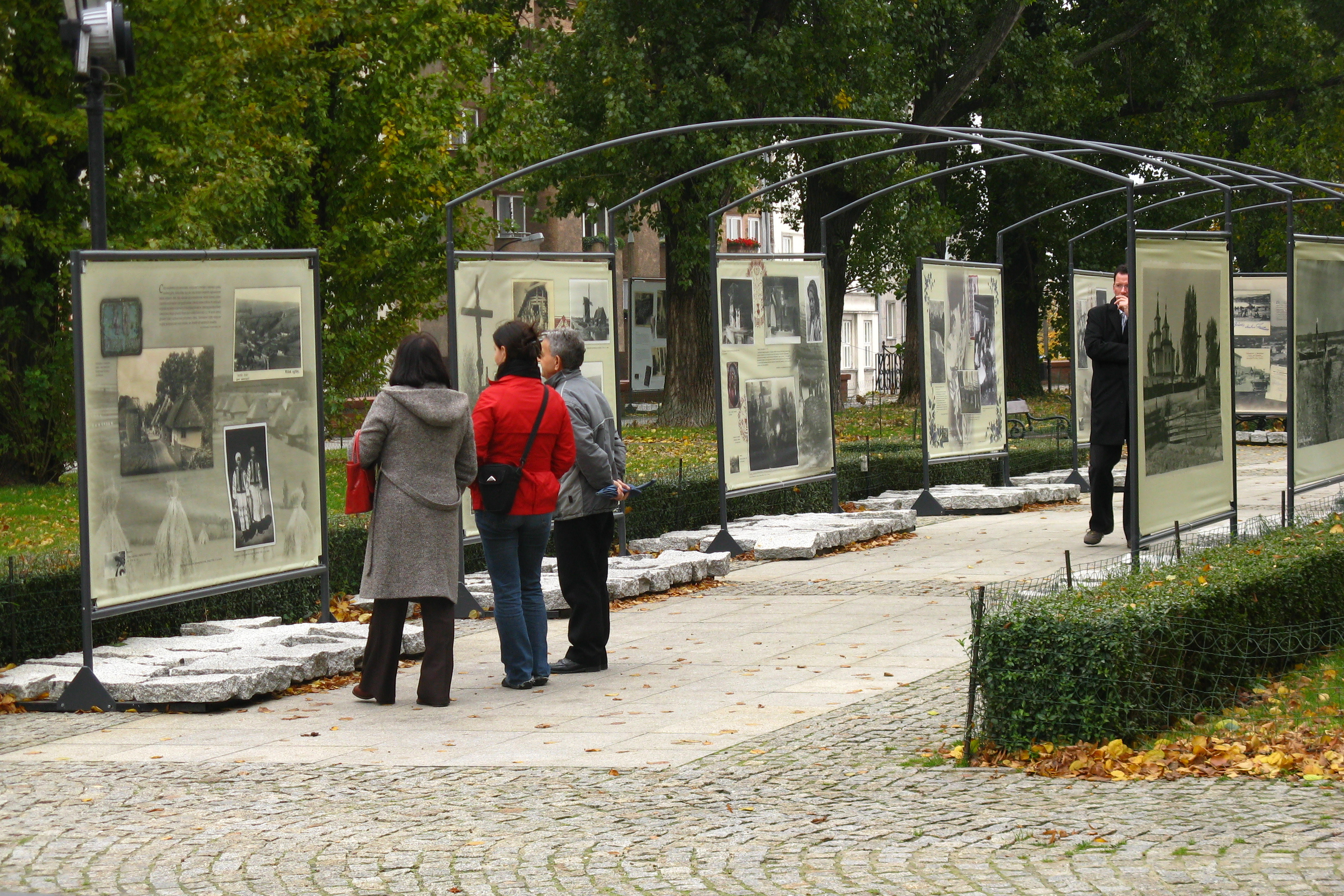 Outdoor exhibition hosted by History Meeting House in Warsaw.